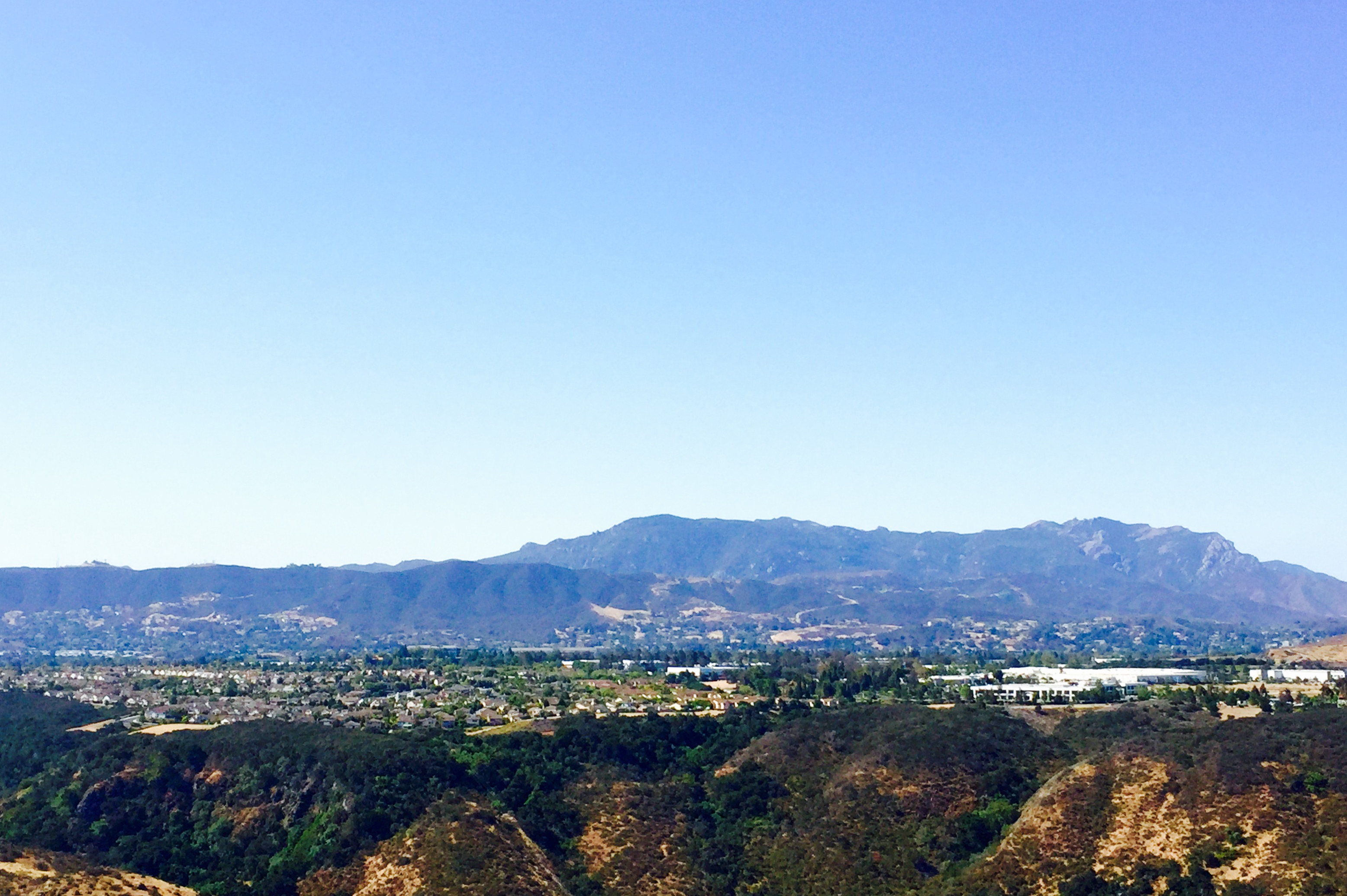 View of Newbury Park, CA and the Santa Monica Mountains in the far-back, taken from Wildwood Regional Park in Thousand Oaks, CA.